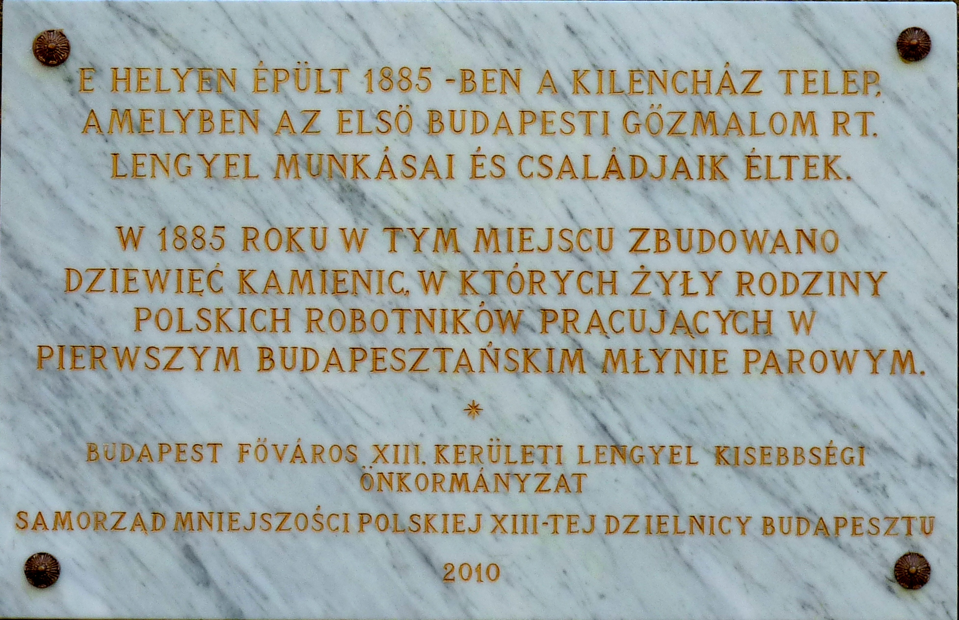 Commemorative plaque to the "Nine Houses" or "Mill Houses" unveiled by the municipality of the Polish minority in the 13th district of Budapest, June 6, 2010. The residential area was built in 1885 by the First Flour Mill of Budapest JSC (Első Budapesti Gőzmalom Rt.) for his workers' families, among them many Polish men. (Budapest, District XIII, Lajos Kassák Street Nr 47).